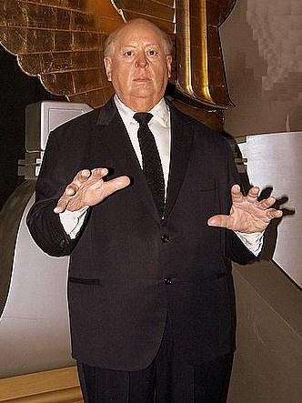 Alfred Hitchcock, Madame Tussauds, London.